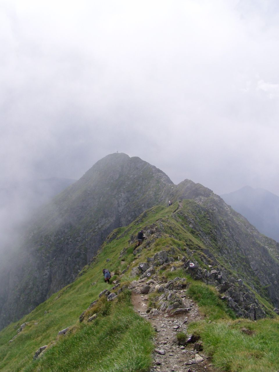 Moldoveanu